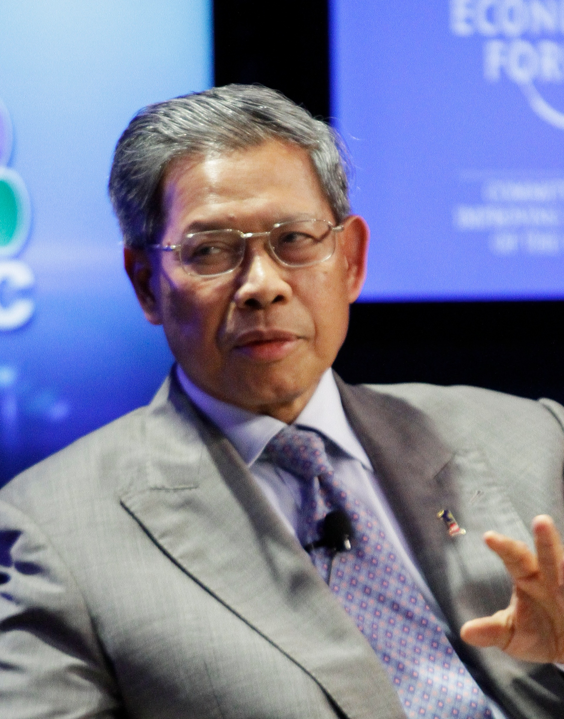 BANGKOK/THAILAND, 31MAY12 - Mustapa Mohamed, Minister of International Trade and Industry of Malaysia, Malaysia. in CNBC/supply chains, captured during the World Economic Forum on East Asia in Bangkok, Thailand, May 31, 2012. Copyright World Economic Forum ( Photo by Sikarin Thanachaiary